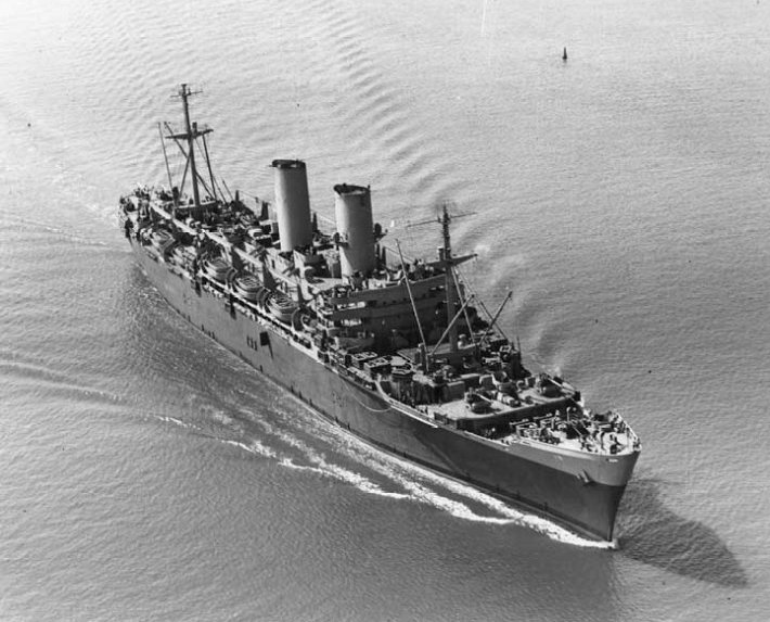 The U.S. Navy troop transport USS General M. C. Meigs (AP-116) underway in Hampton Roads, Virginia (USA), on 4 July 1944, soon after completion. The photo was taken from an aircraft assigned to Naval Air Station Hampton Roads.